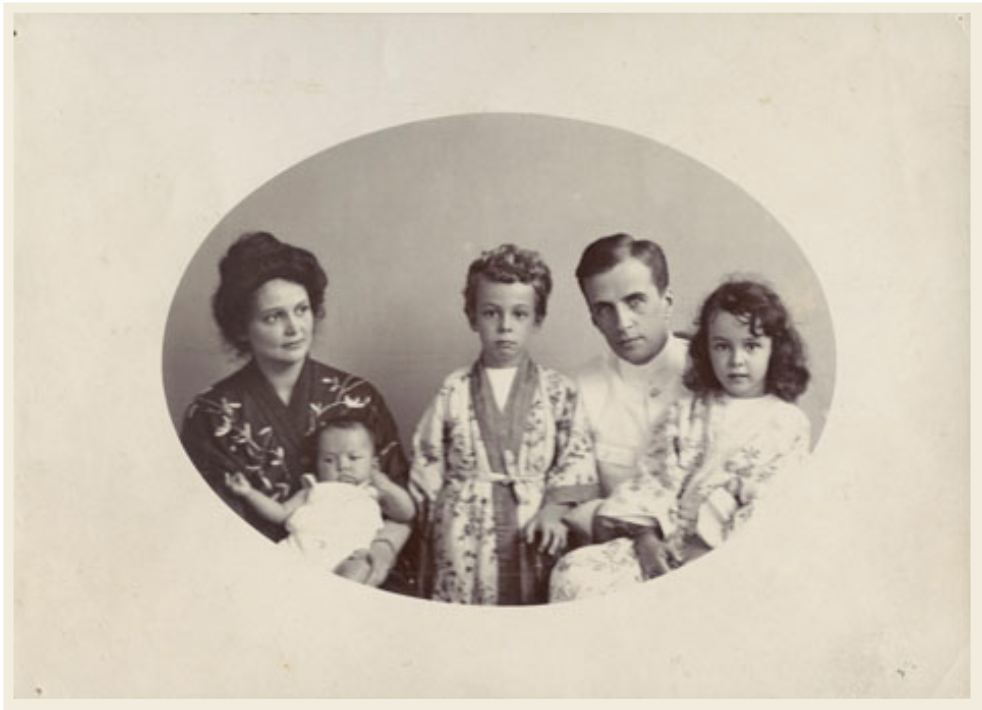 Family of Antoni Willem Hartman in Semarang 1910. Fltr: Cornelie Marie Engelbrecht, Cornelie Marie, Wibbo Charles Justinus Eduard, Antoni Willem Hartman and Justine (Juus) Louise.